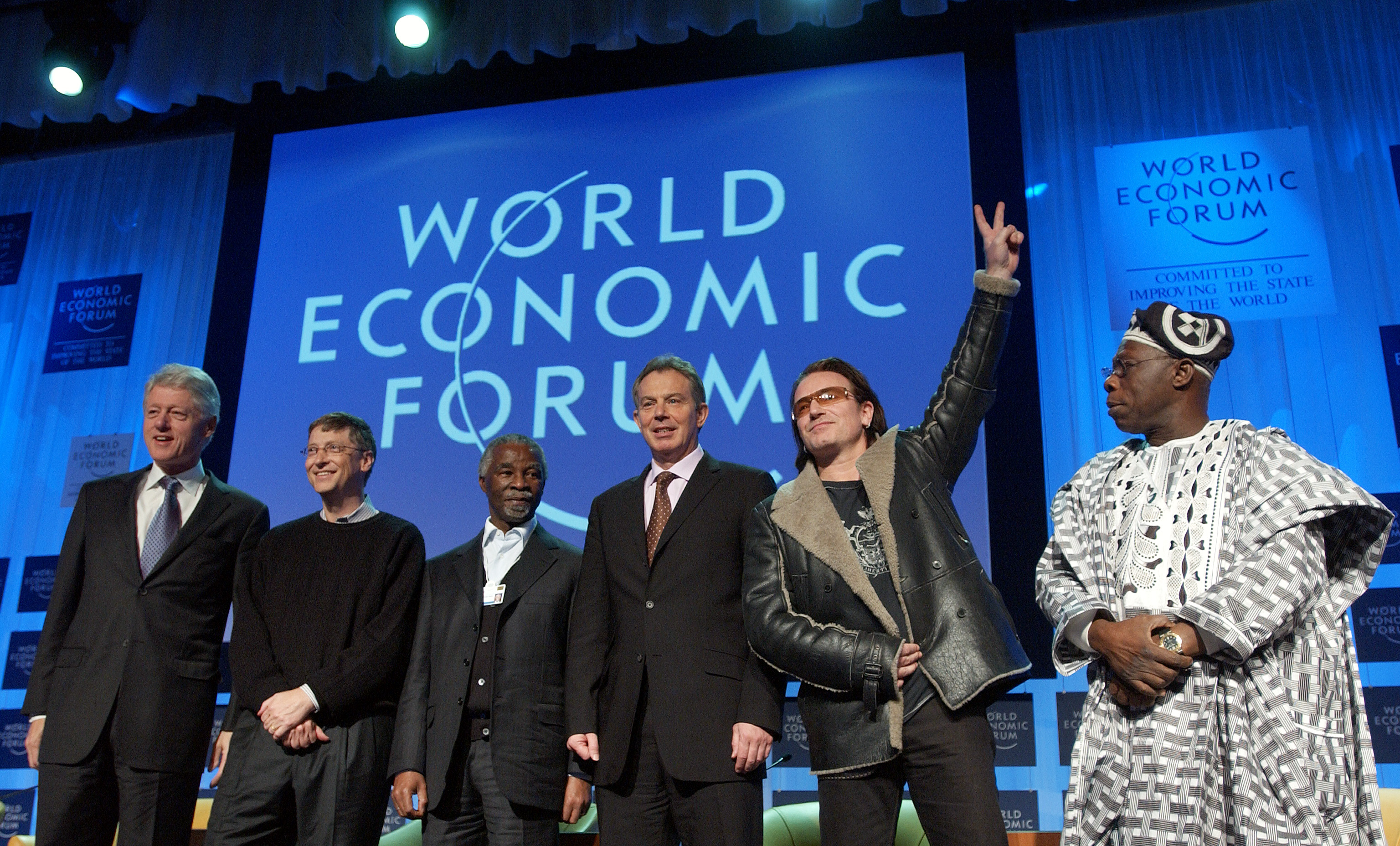 DAVOS/SWITZERLAND, 27JAN05 - William J. Clinton, Founder, William Jefferson Clinton Foundation; President of the United States (1993-2001), William H. Gates III, Co-Founder, Bill & Melinda Gates Foundation; Chairman and Chief Software Architect, Microsoft Corporation, USA; Thabo Mbeki, President of South Africa; Tony Blair, Prime Minister of the United Kingdom; Bono, Musician, DATA (Debt, AIDS and Trade in Africa), United Kingdom, and Olusegun Obasanjo, President of Nigeria (FLTR), captured before the start of the session 'The G-8 and Africa: Rhetoric or Action?' at the Annual Meeting 2005 of the World Economic Forum in Davos, Switzerland, January 27, 2005.